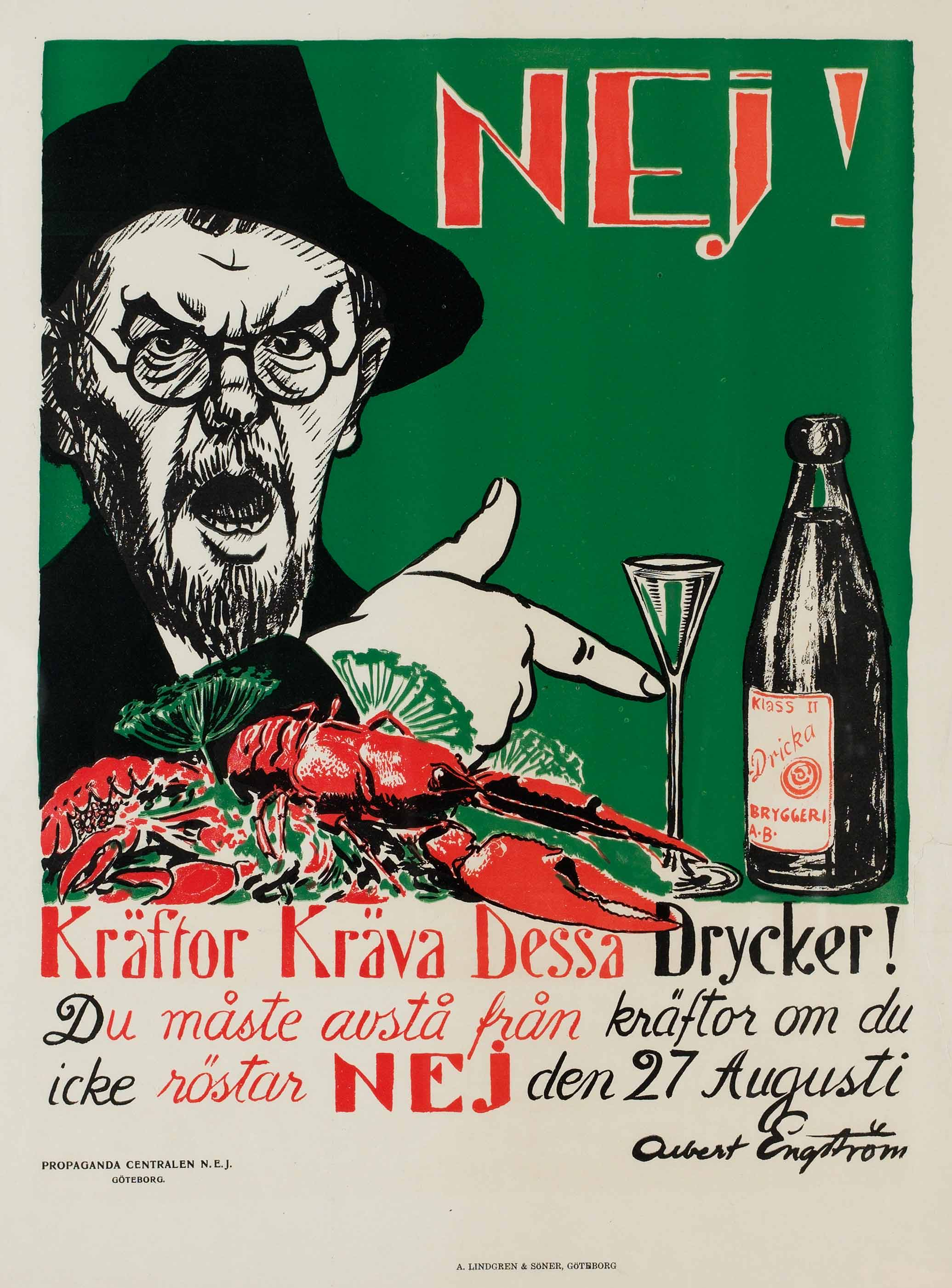 Poster used at the Swedish referendum on prohibition in 1922. The text in